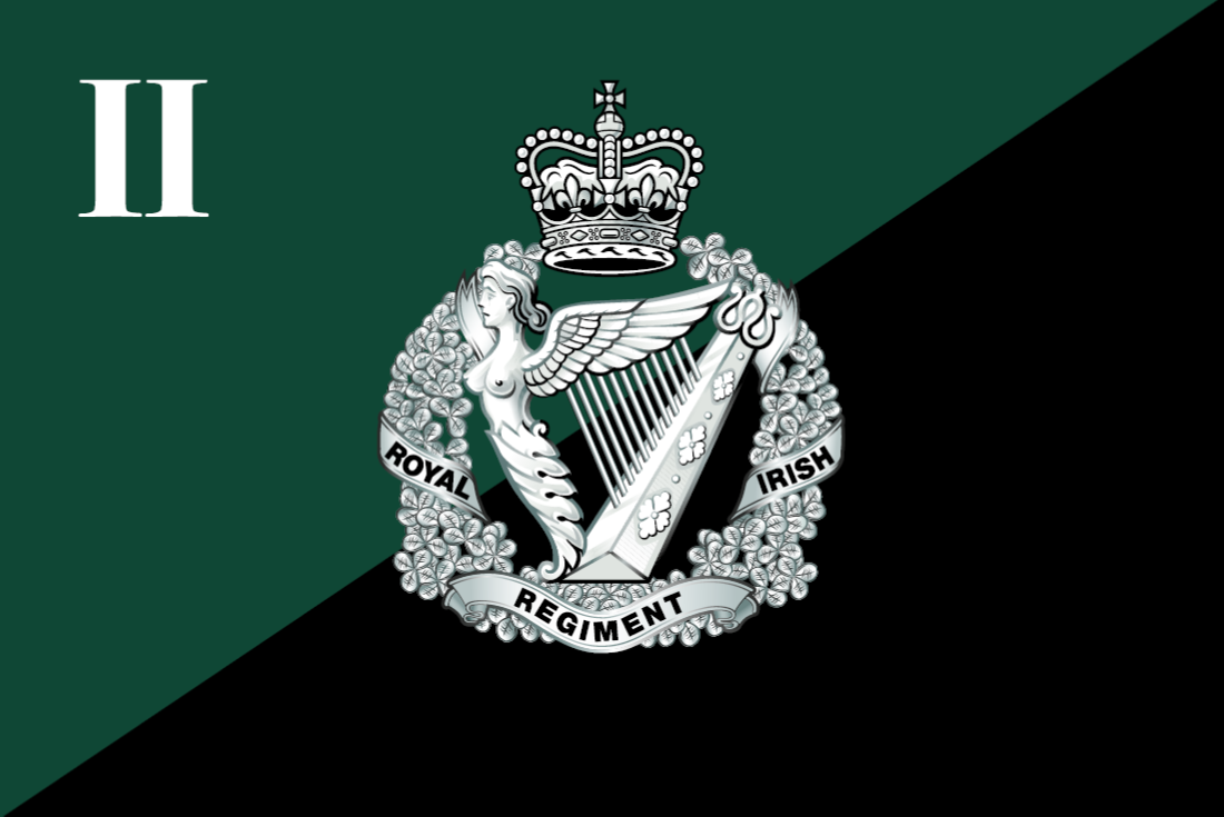 The Camp Flag of the 2nd Battalion, Royal Irish Regiment, adopted as part of a refresh of Regimental iconography on 17th March 2020. The flag bears the Roman numeral II in its upper left corner for the 2nd Battalion. The 1st Battalion's Camp Flag bears the Roman numeral I. The Regimental Headquarters flag is blank in the upper left corner.